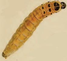 Stainton’s Natural History of the Tineina (1855–1873): Coleophora chamaedriella